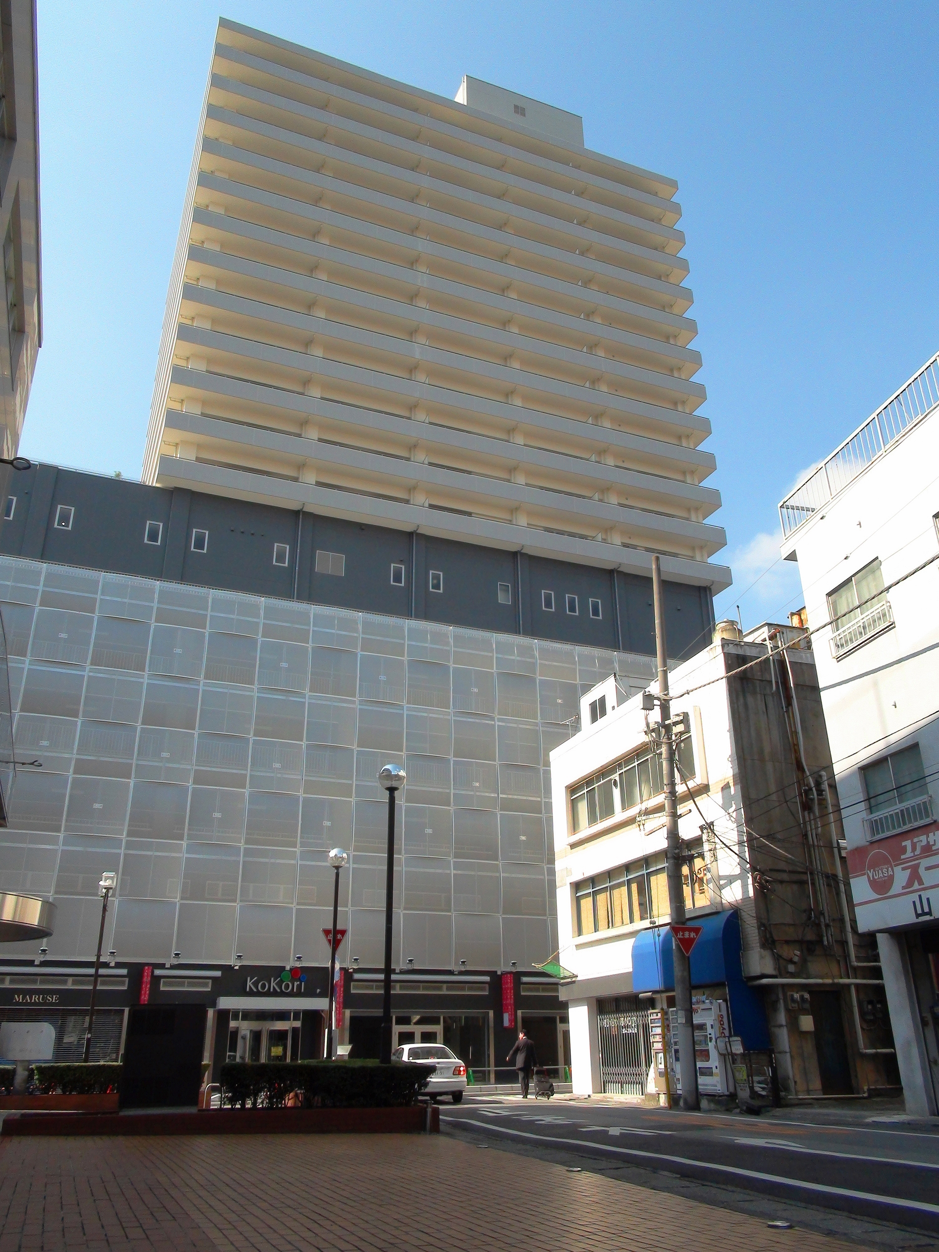 Commercial institution KOKORI of the Kofu city